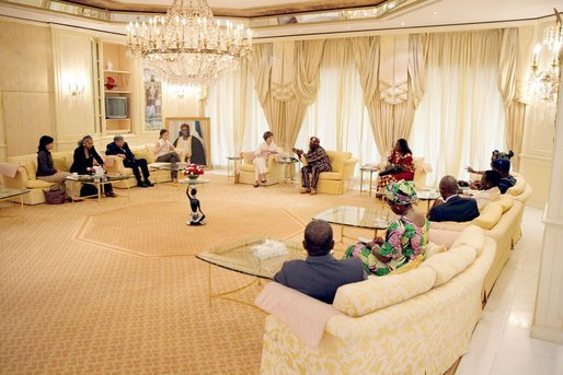 Mrs. Laura Bush is joined by daughter Barbara as they visit with Nigeria President Olusegun Obasanjo Wednesday, Jan. 18, 2006, at the presidential villa in Abuja, Nigeria. The visit came on the last day of a four-day visit to West Africa.